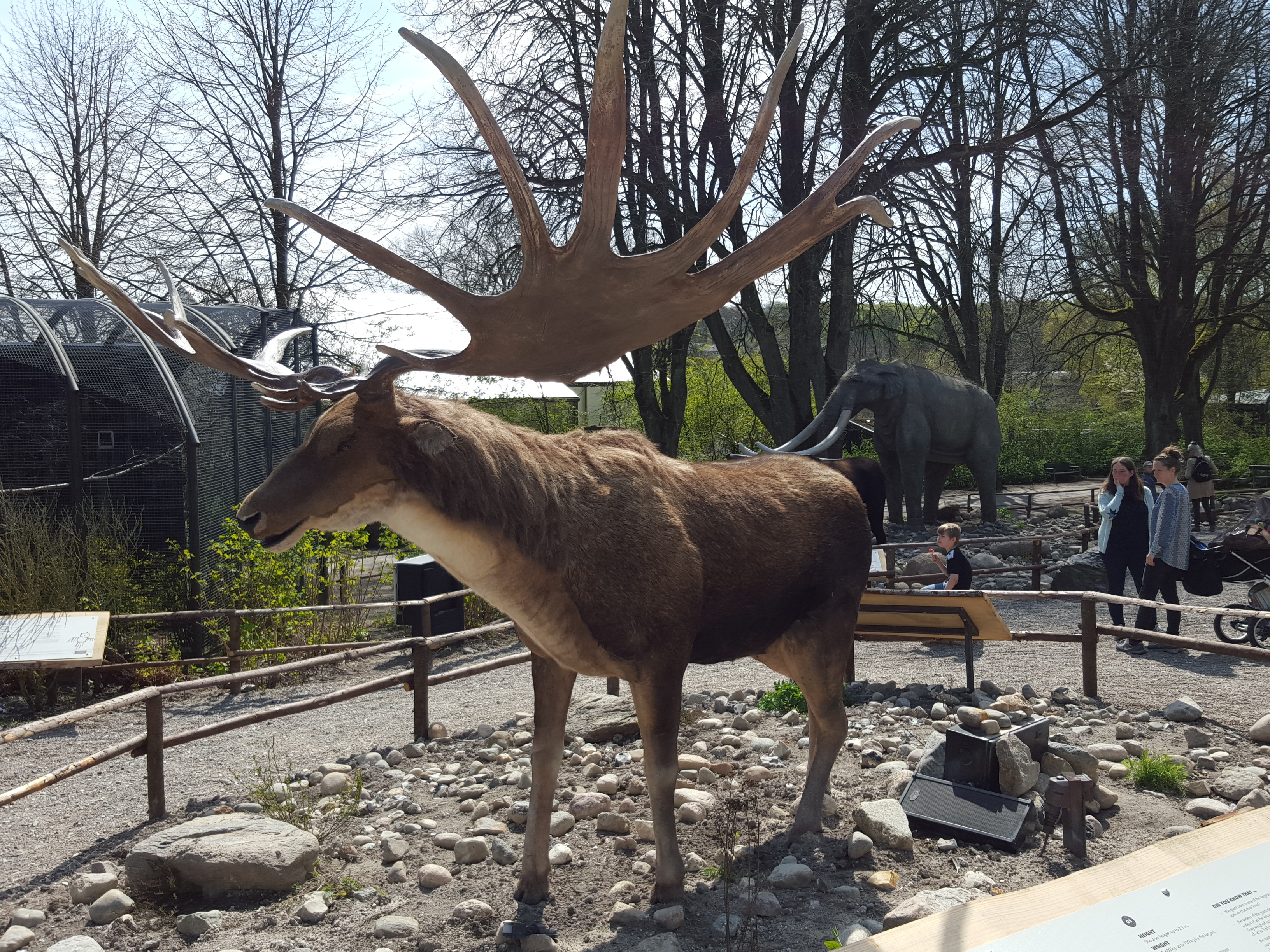 Megaloceros giganteus in Aalborg Zoo Ice Age exhibition, May 2016